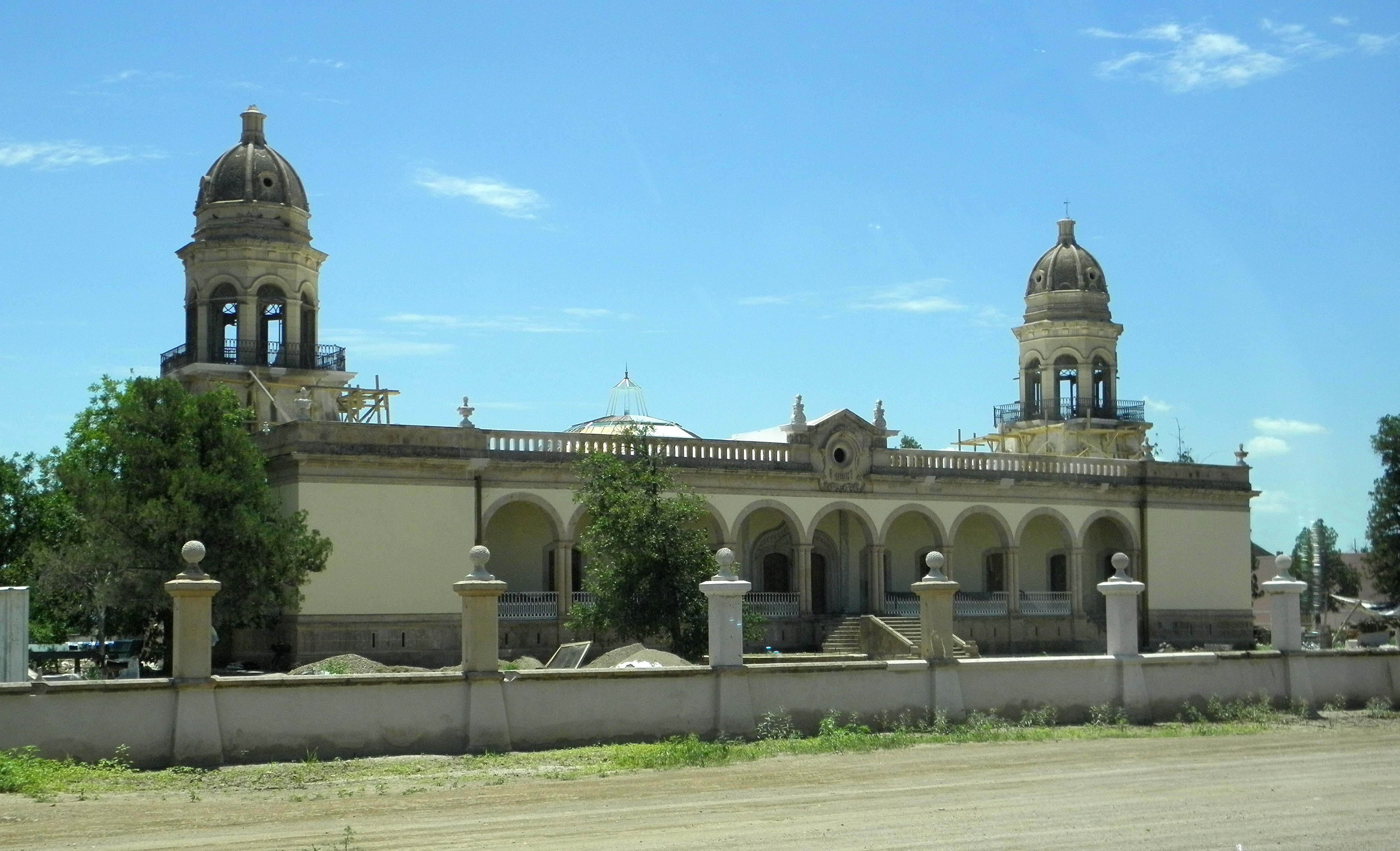 Quinta Carolina, Chihuahua, Mexico, rear view of main house of the hacienda, built in 1896, currently undergoing restoration.